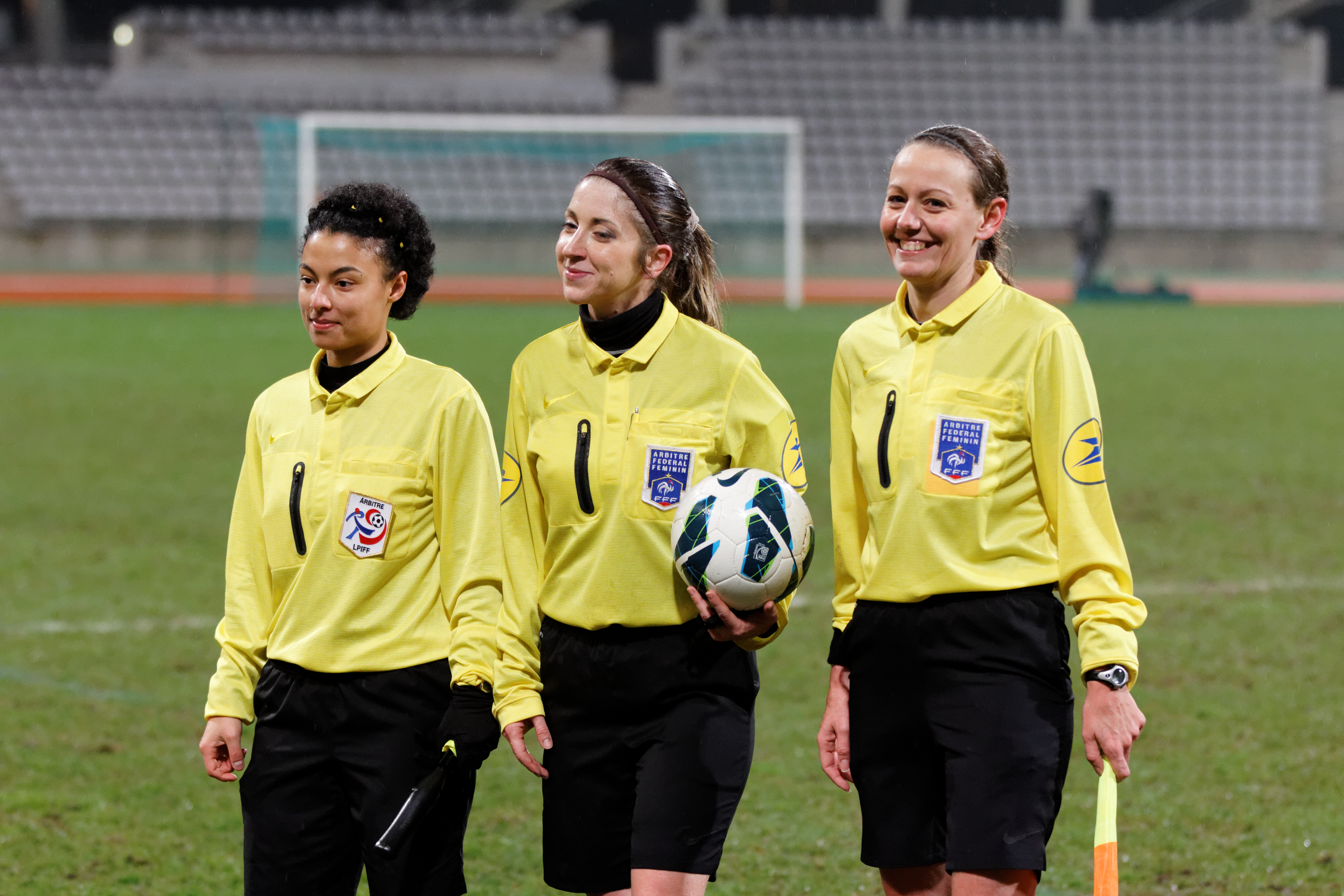 PSG-Montpellier, January 13th, 2013. Referrees : Stéphanie Di Benedetto, Manuela Nicolosi and Cindy Buffart.